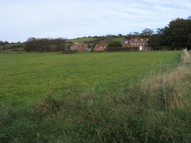 Standen House Looking up from the Blackwater Road to Standen House